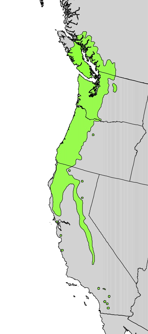 Range map of Cornus nuttallii